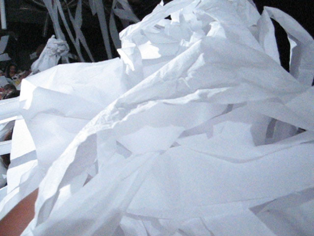 Crêpe paper is a kind of thin paper resembling the fabric crape often used make cheap paper decorations or streamers.